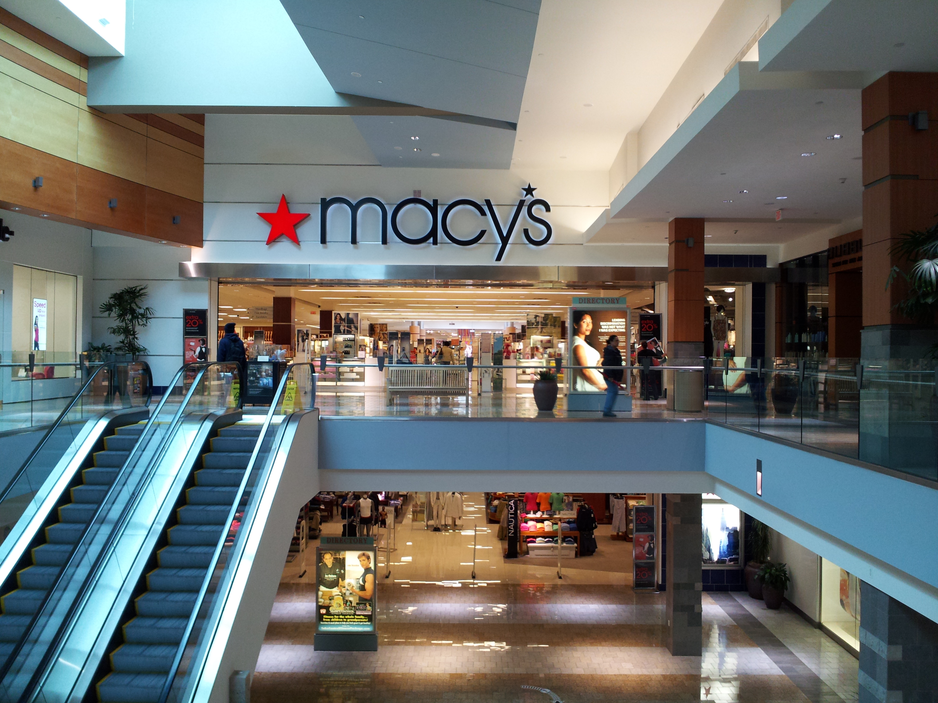 Macy's entrances at Westfield Wheaton, seen from the interior of the mall on the upper level.